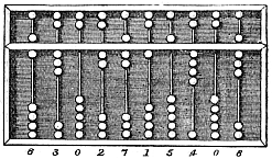 Abacus